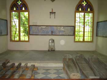 Mont Valerien chapel, interior view